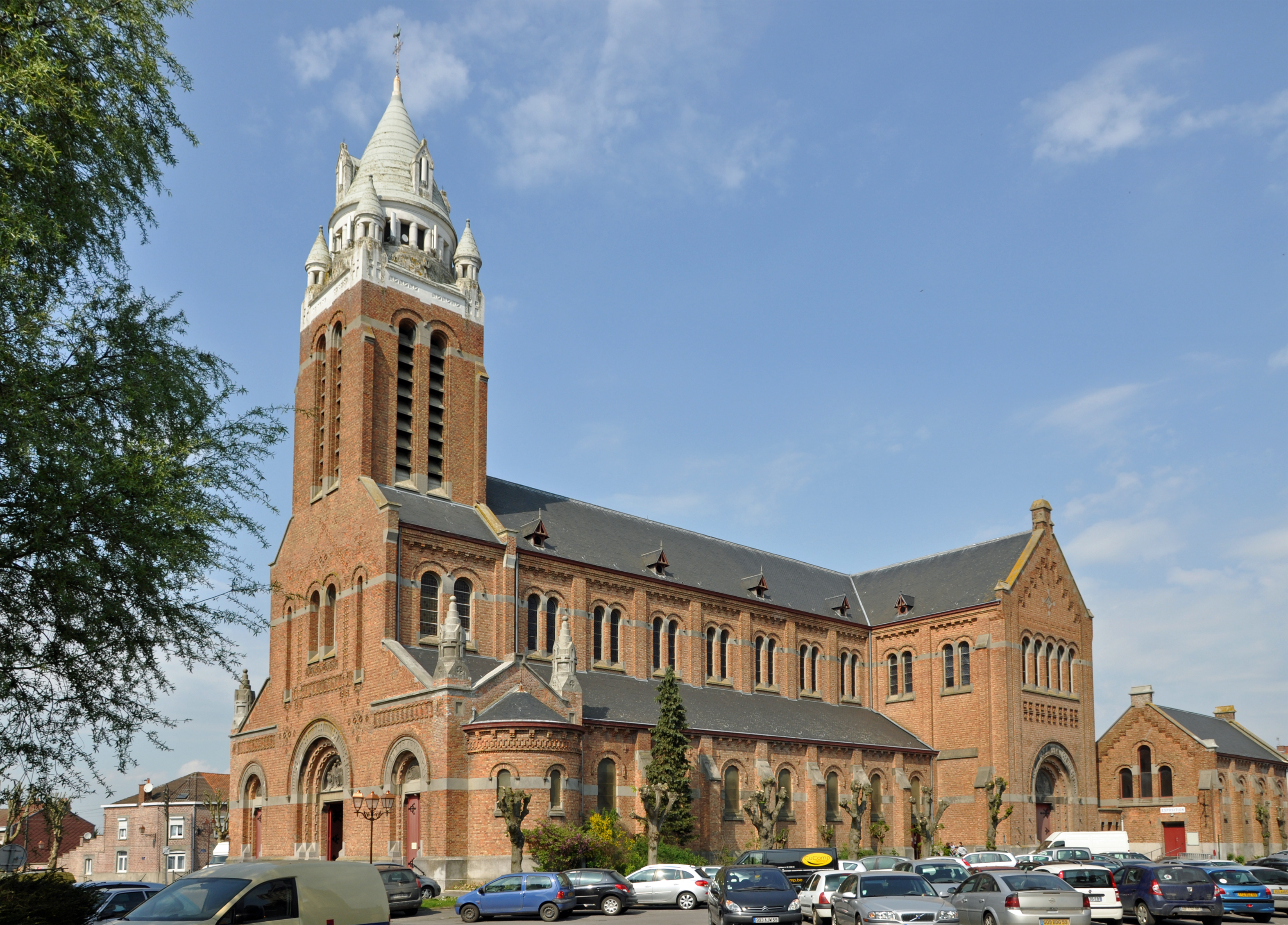 Bailleul (Département du Nord, France): St Vaast church by architect Louis Marie Cordonnier (1854-1940)